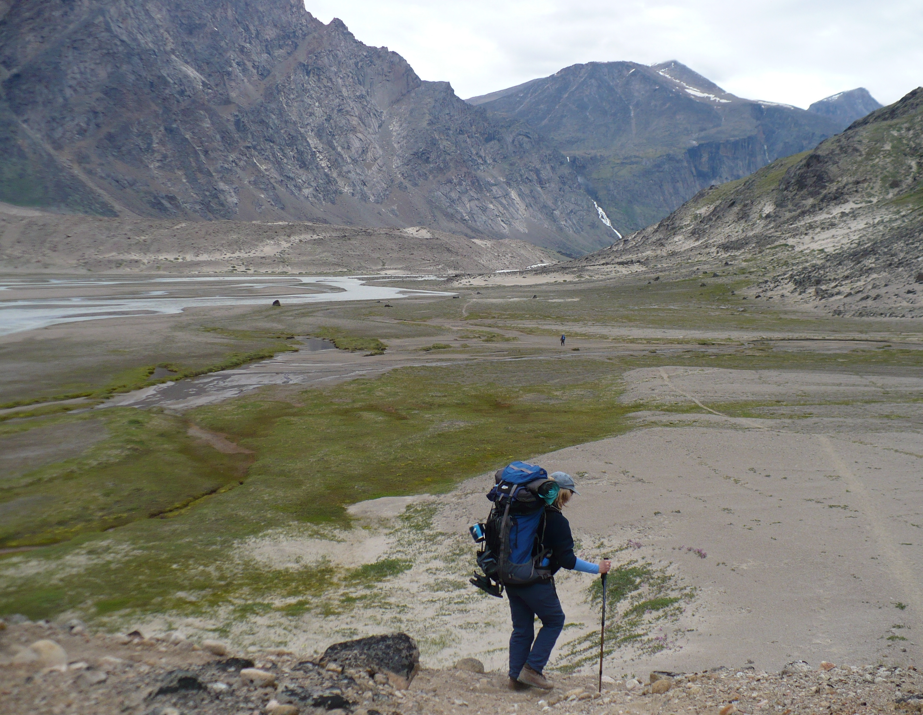 Hiking north along the pass towards Windy Lake.